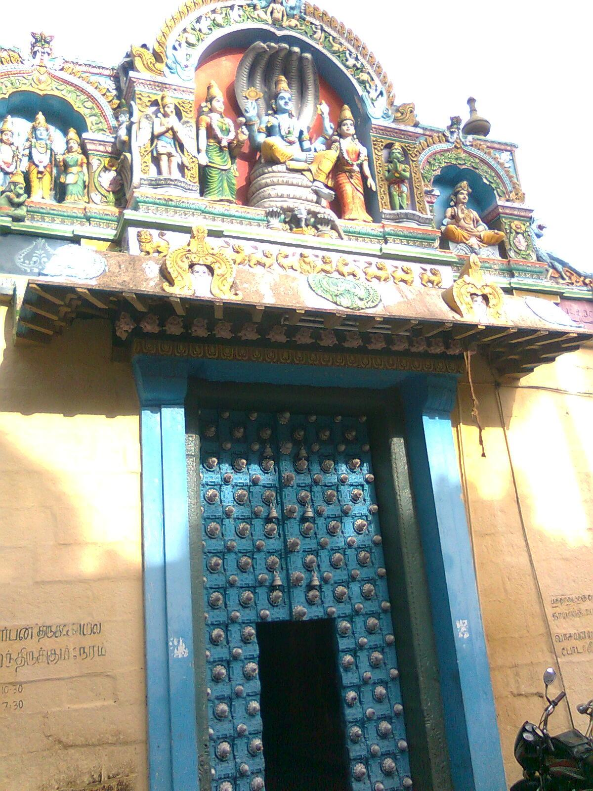 TirupathiSaram Temple Entrance